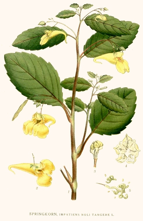 Original Description Springkorn, Impatiens noli-tangere L.